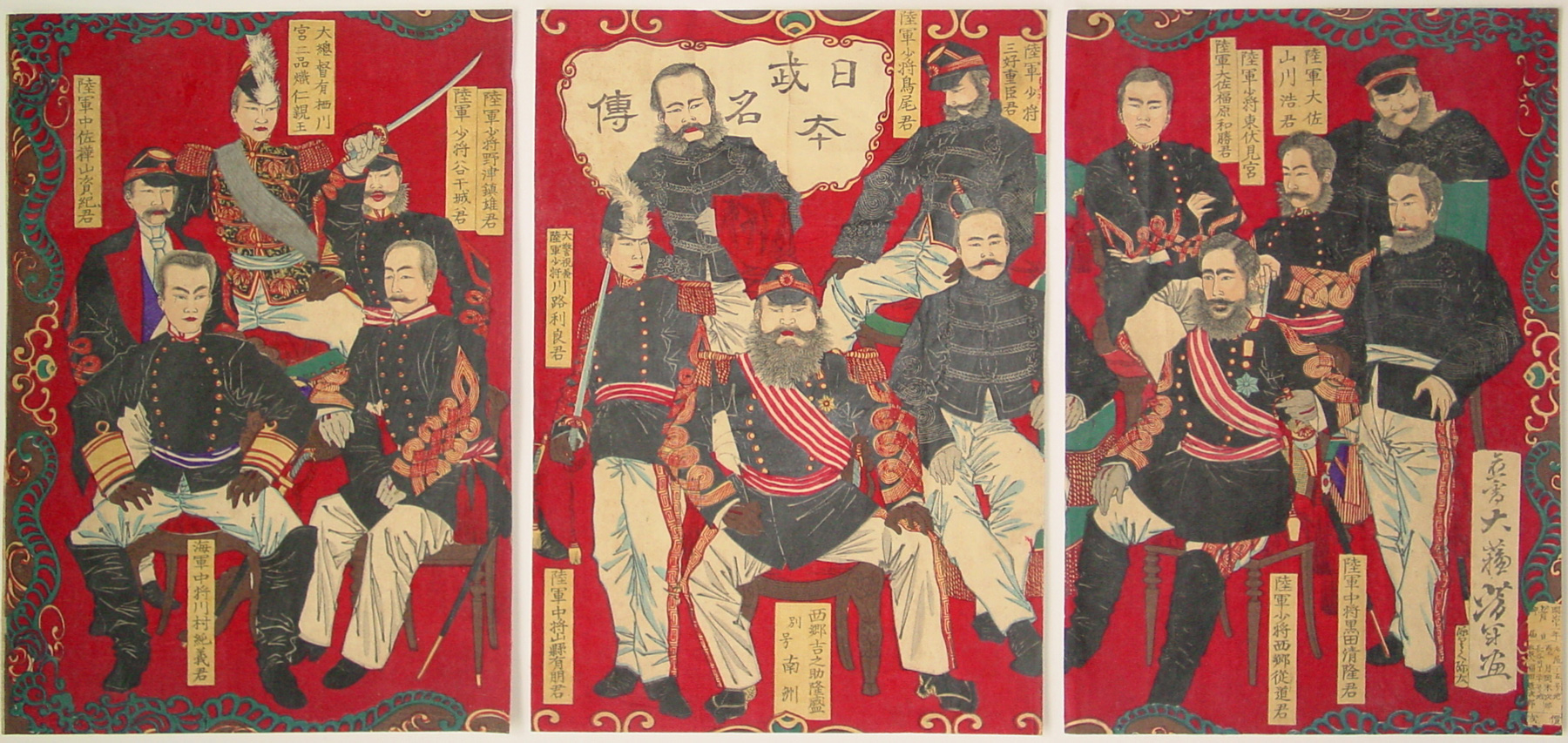 Woodblock Print by Tsukioka Yoshitoshi of Japan's famous soldiers (日本 武名 伝図), published by Fukuda Kumajiro in May 1878. Left panel: Arisugawa Taruhito (center top), Kabayama Sukenori (upper left), Tani Tateki (upper right), Kawamura Sumiyoshi (lower left), Nozu Shizuo (lower right) Center panel: Saigo Takamori (seated center), Kawaji Toshiyoshi (upper left), Torio Koyata (upper right), Yamagata Aritomo (lower left), Miyoshi Shigeomi (lower right) Right panel: Higashifushimi Yoshiaki (center), Kazukatsu Fukuhara (upper left), Yamakawa Hiroshi (upper right), Saigō Tsugumichi (lower left), Kuroda Kiyotaka (lower right)